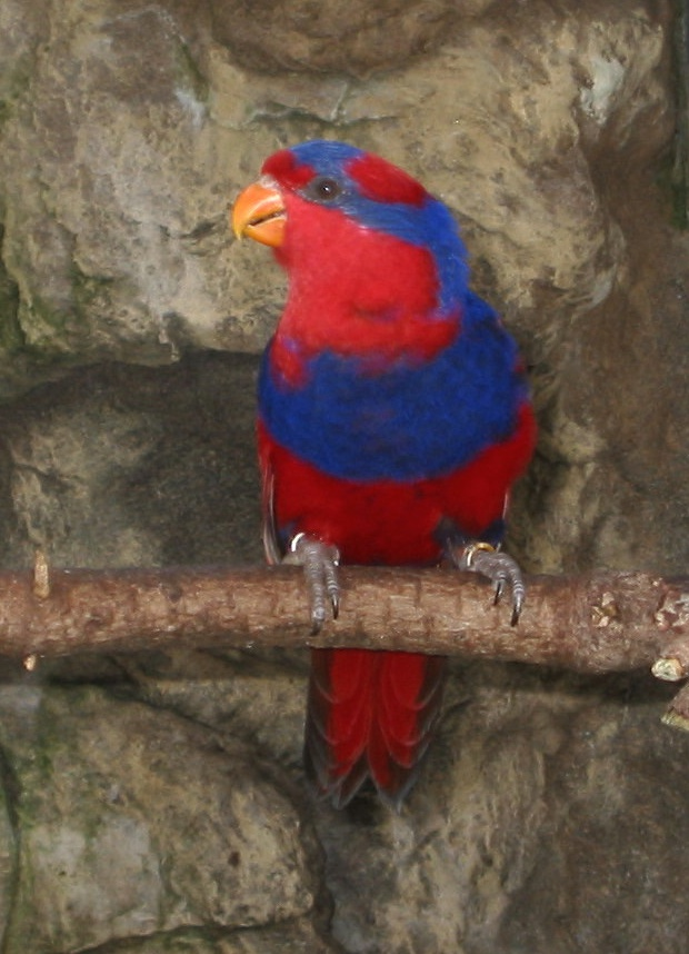 Red-and-blue Lory (Eos histrio talautensis) at Loro Parque, Tenerife, Spain.